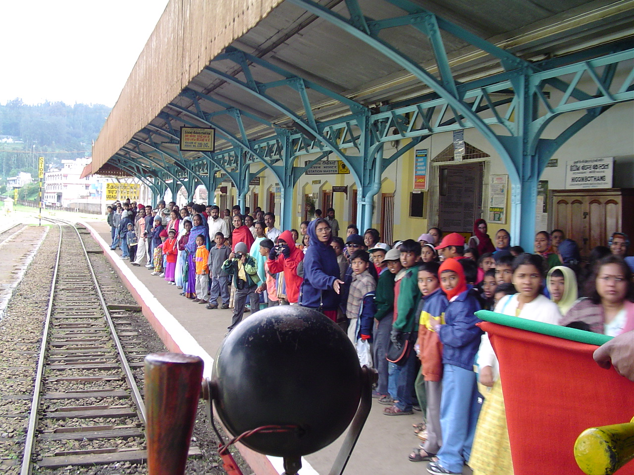 People, especially children, on the platform of Ooty railway station.